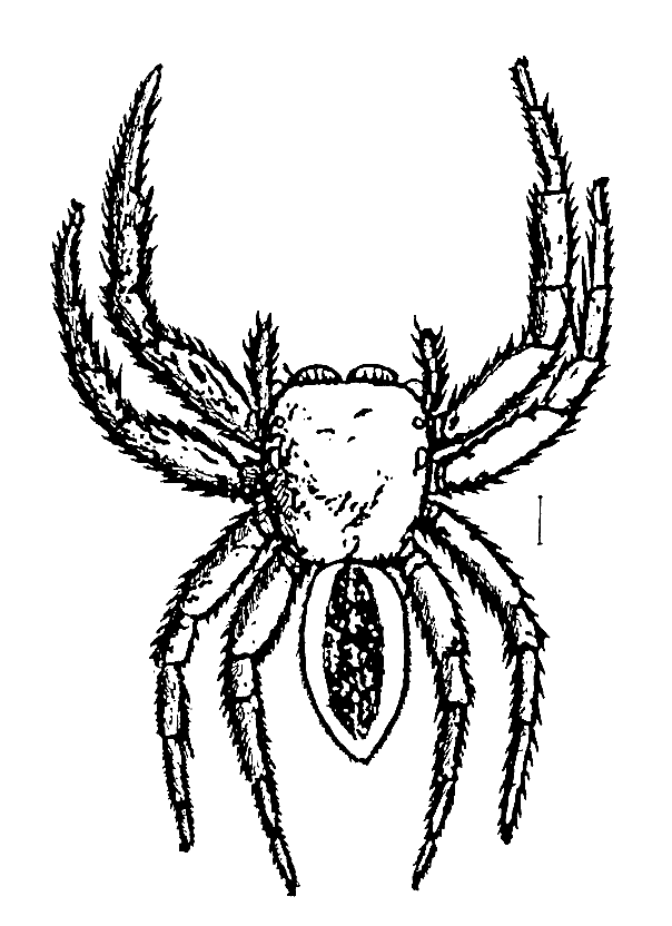 Carrhotus viduus male from Workman, 1896. Specimen from Pinang, Malaysia.